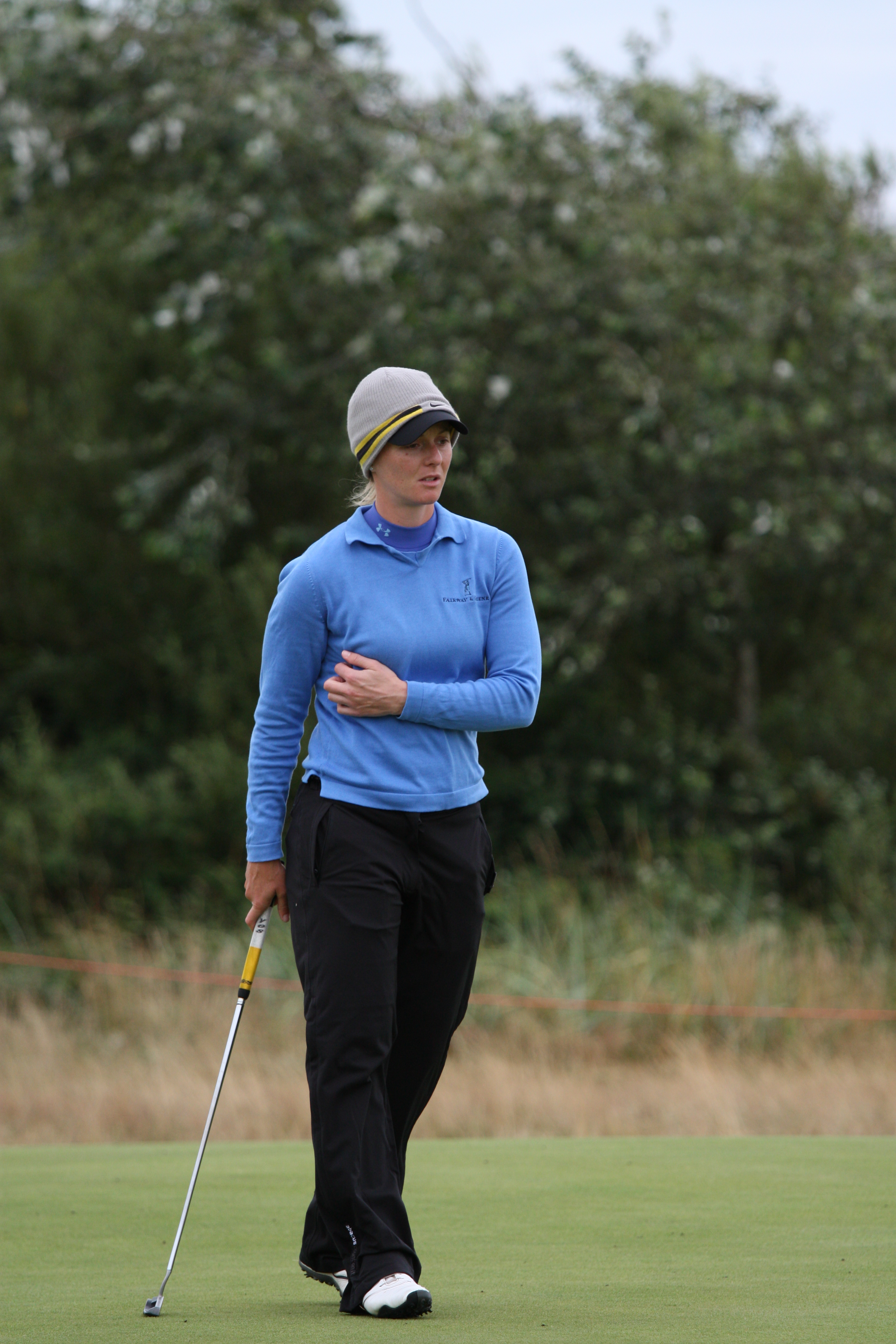 LYTHAM ST ANNES, UNITED KINGDOM - JULY 29: Vikki Laing of Scotland on the 11th green during third practice round before 2009 Ricoh Women's British Open held at Royal Lytham & St Annes on July 29, 2009 in Lytham St Annes, England. (Photo by Wojciech Migda)